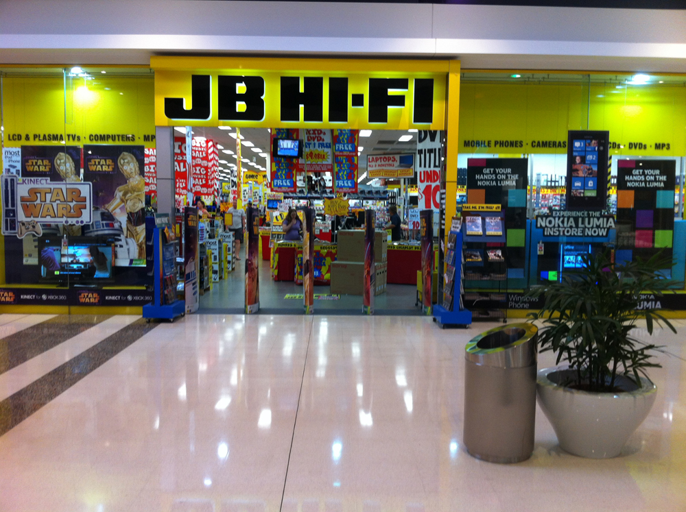 This photo shows a JB HiFi store in Stockland Rockhampton, a major shopping centre. It is shared on here so viewers can see what a JB Hi-Fi store inside a shopping centre looks like. While it shows a trademark brand, I took this photo myself with my iphone.